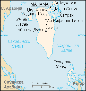 Map of Bahrain on Macedonian.